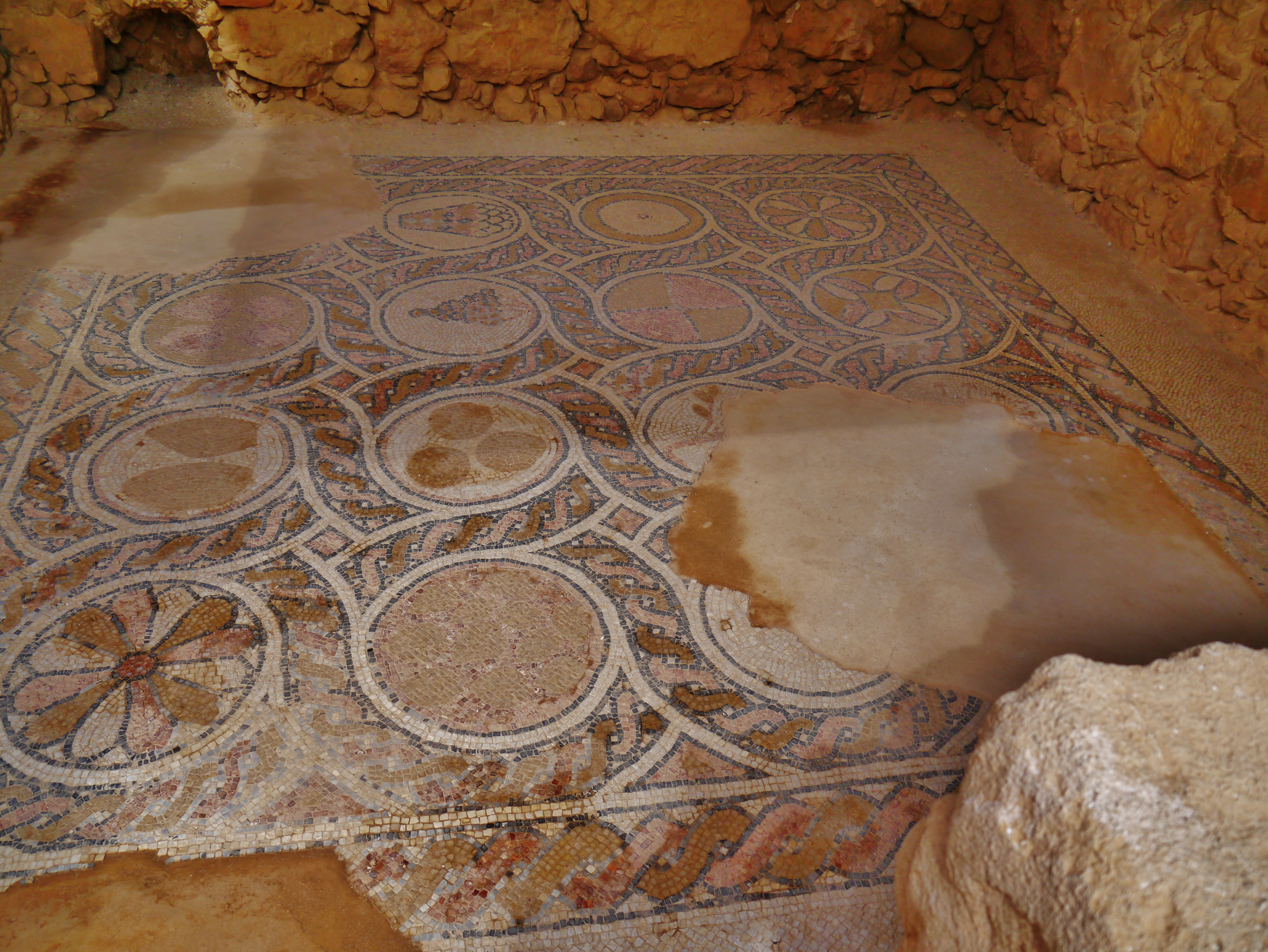 Mosaic of the Byzantine Church of Masada, Israel